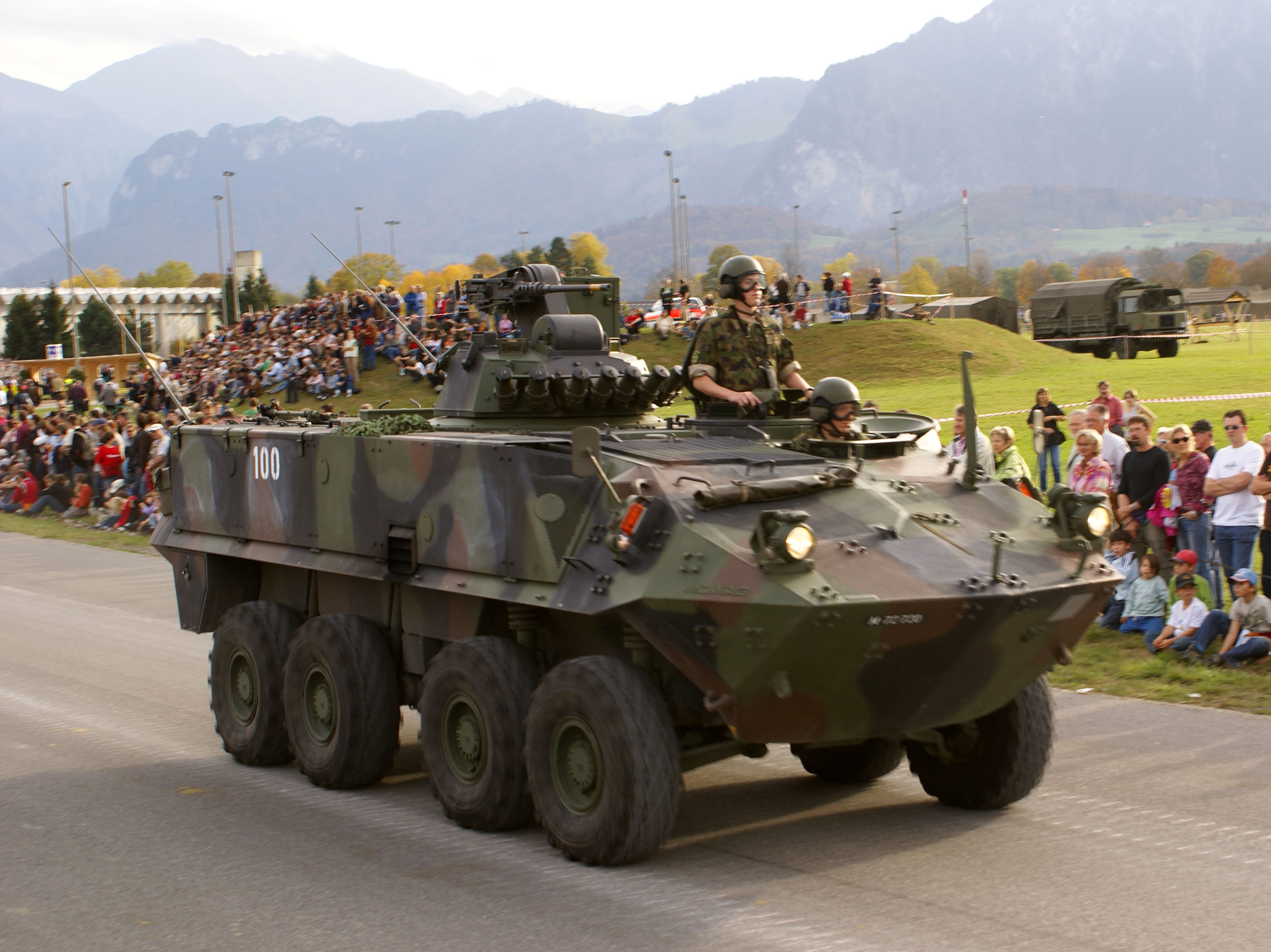 Swiss Army. MOWAG Piranha APC. Participating in the "Steel Parade" of the 2006 Army Days, Thun.